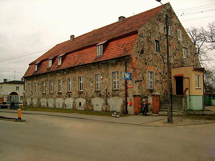 Post Office building in Tur